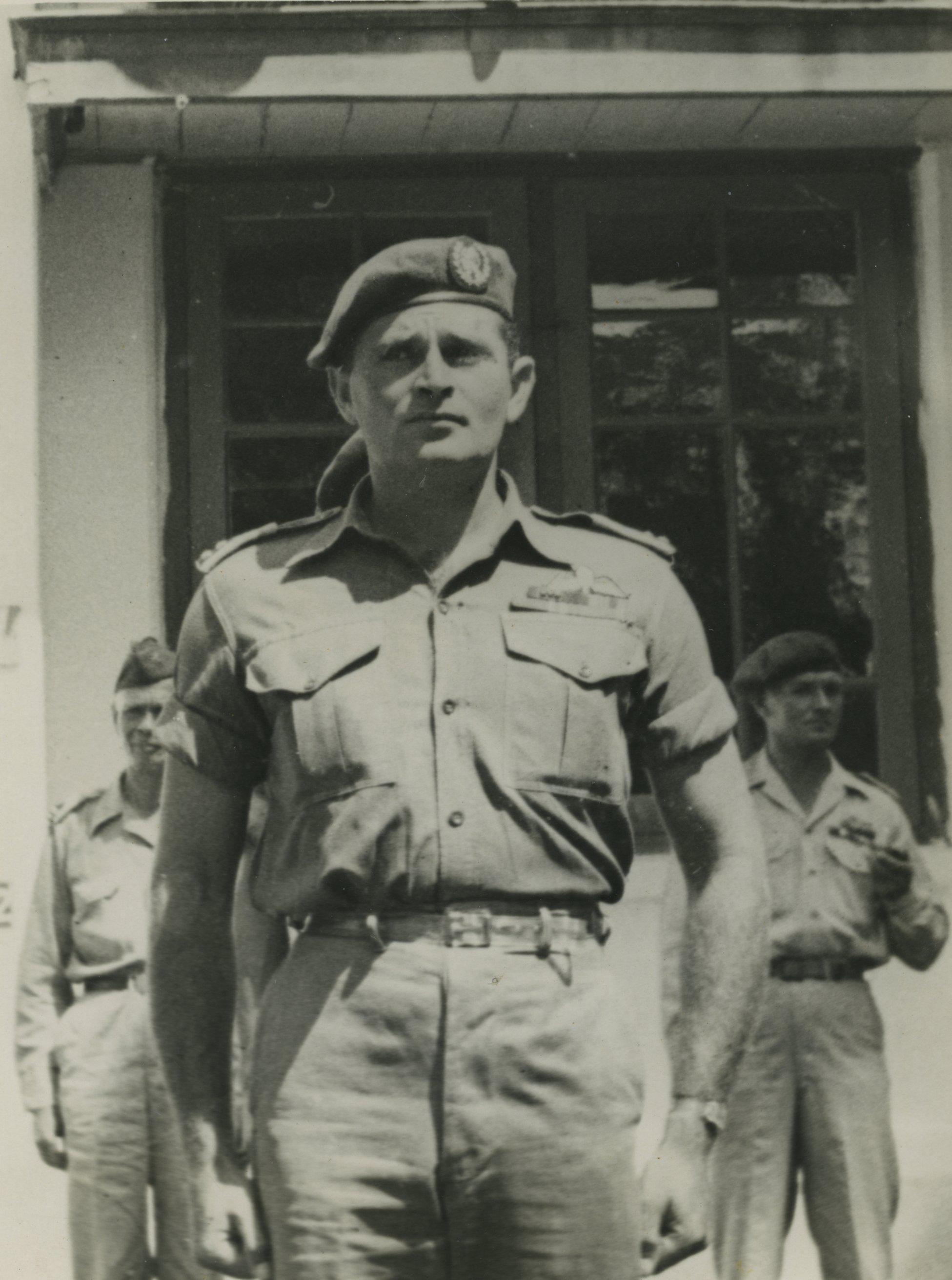 Raymond Westerling (1919-1987) was a Dutch military officer of the KNIL (Royal Netherlands East Indies Army).